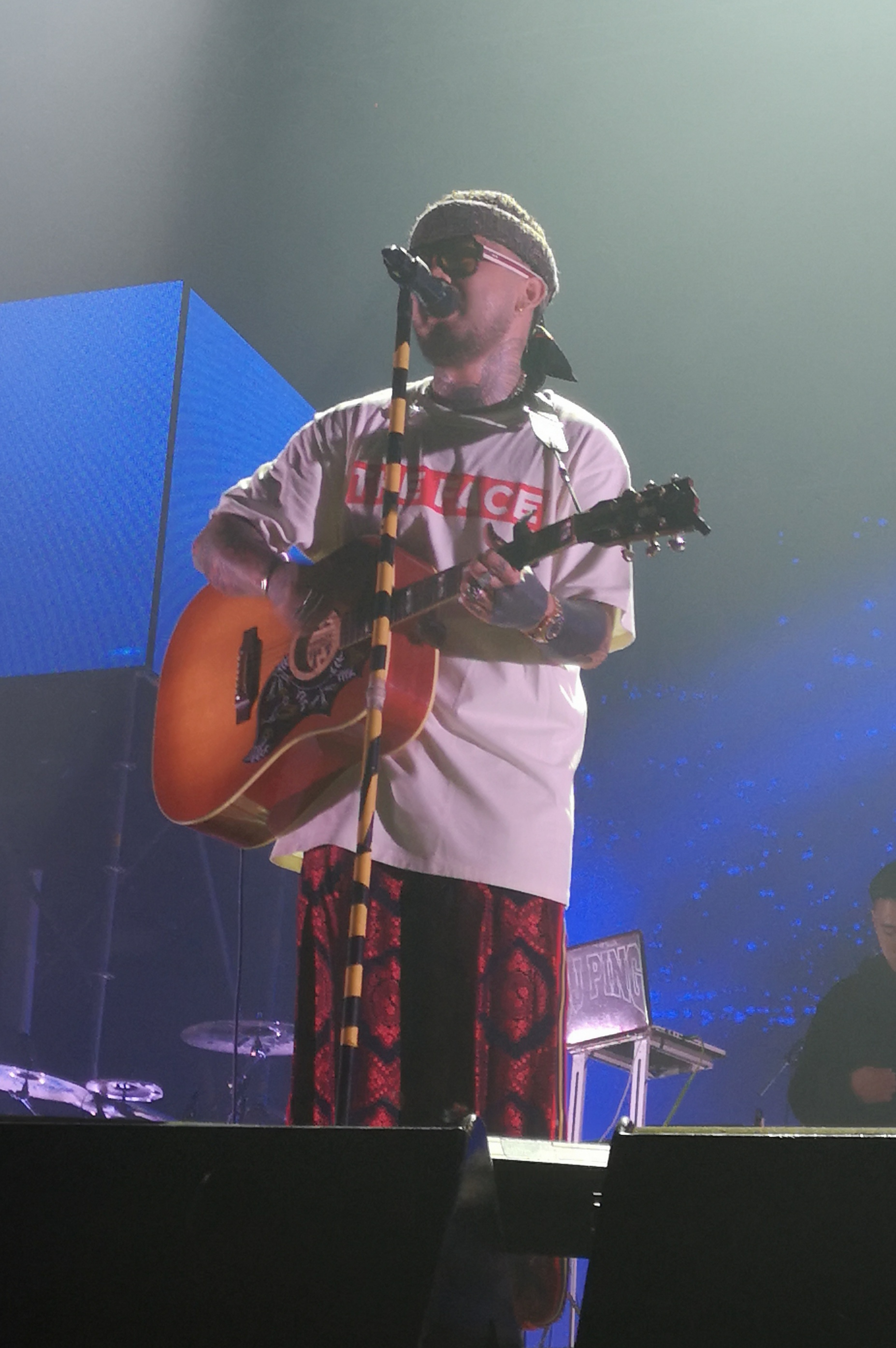 Urboy TJ at Sanamluang Suan Sanarm Festival 2019